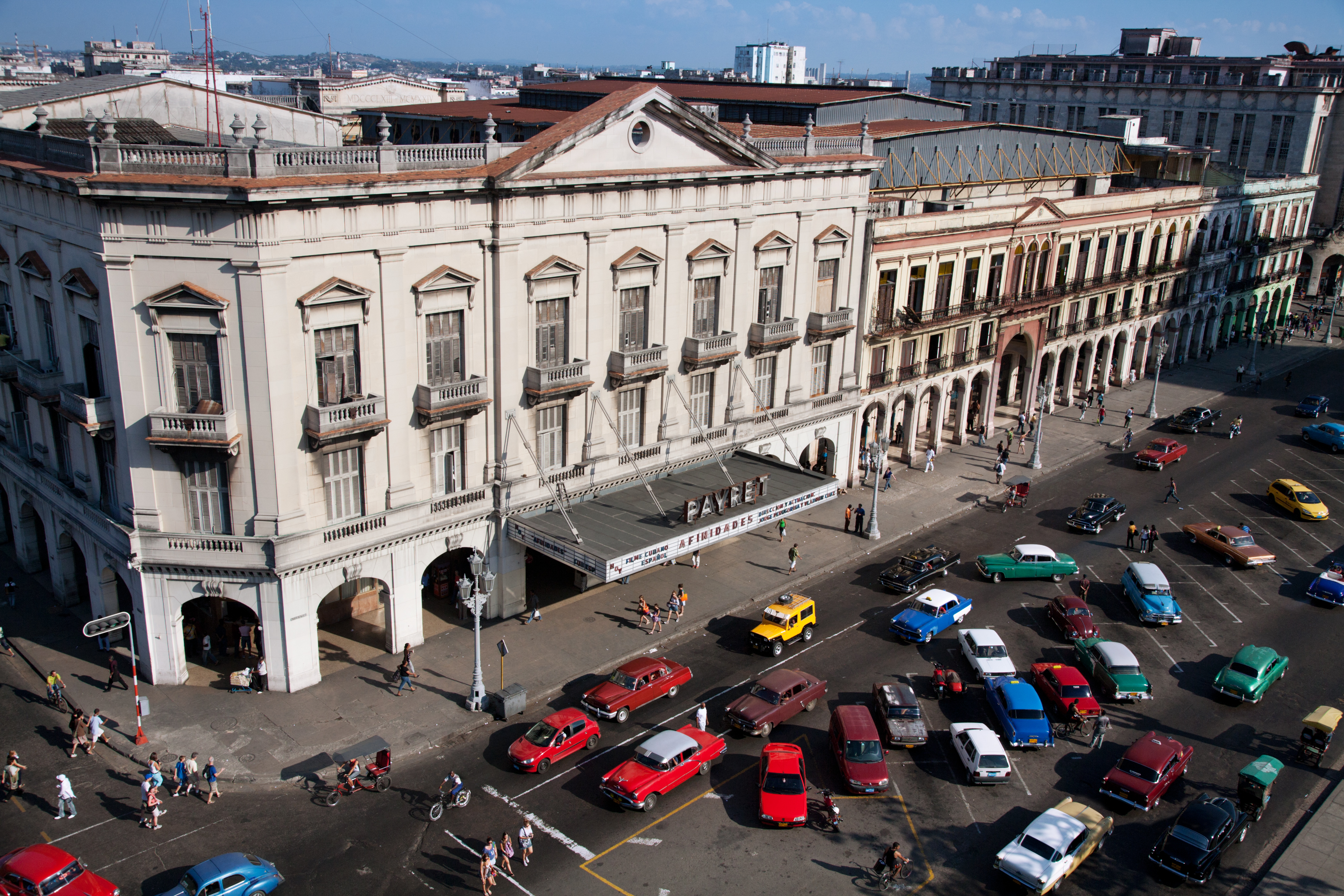 View from the roof of the Teatro Nacional de Cuba to the Teatro Payret and the Paseo Marti. Havana (La Habana), Cuba